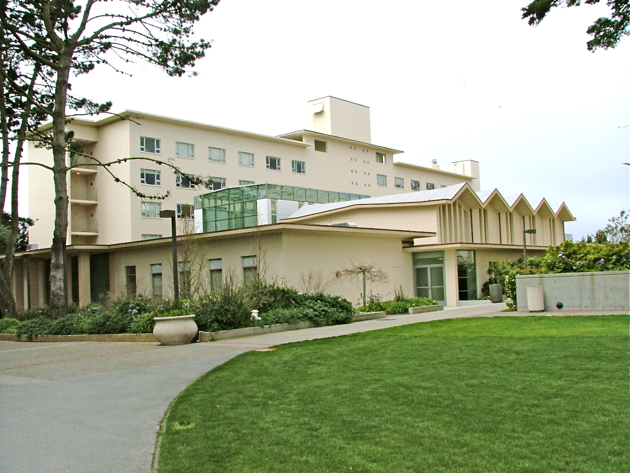 Fromm Hall on the campus of the University of San Francisco, San Francisco, CA